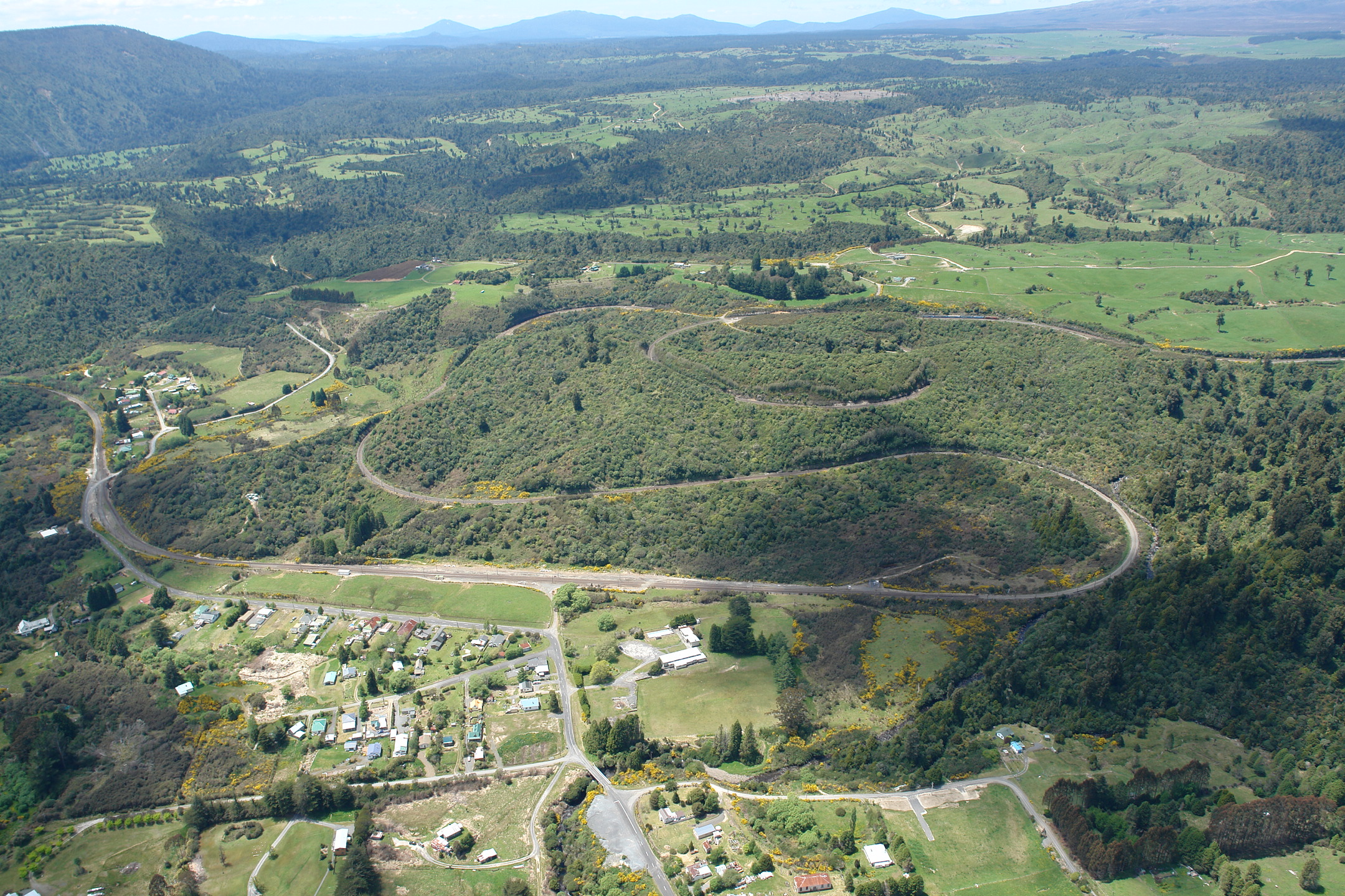 Raurimu Railway Spiral from Helicopter